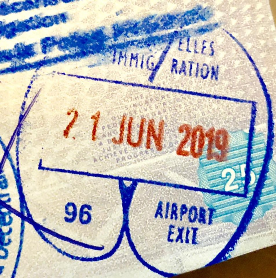 SeychellesExit